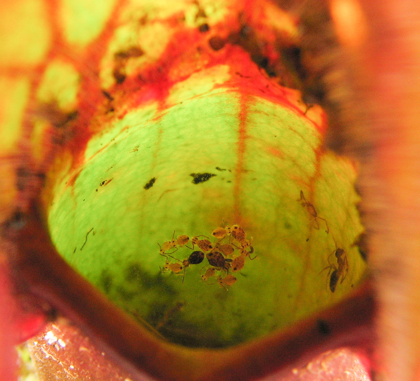 Collembola (Dicyrtomina minuta) trapped inside a leaf of Sarracenia purpurea. Size: 1-2 mm roughly. Pennypack Restoration Trust, Montgomery County, Pennsylvania, USA.